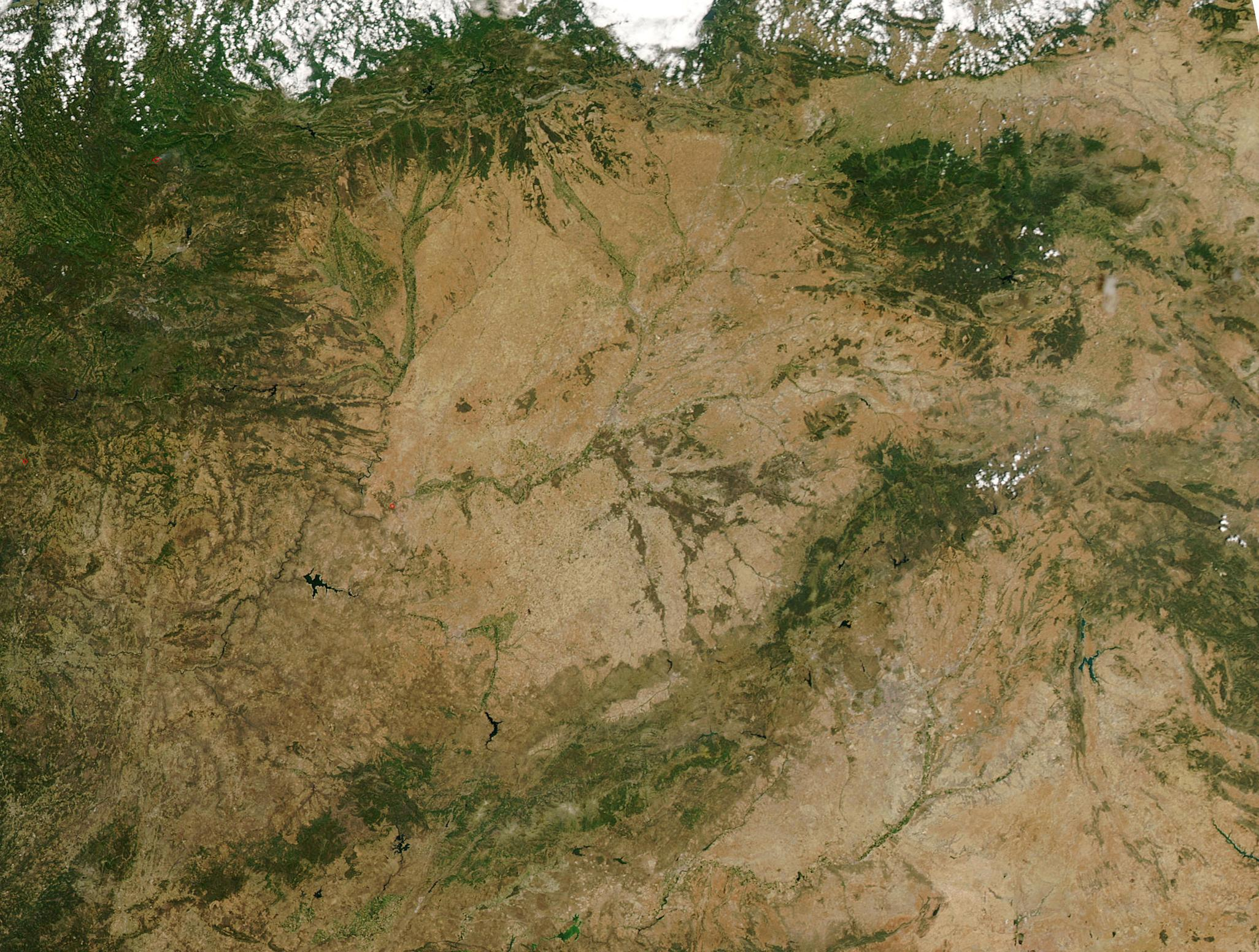 Castile and Leon in july 2004